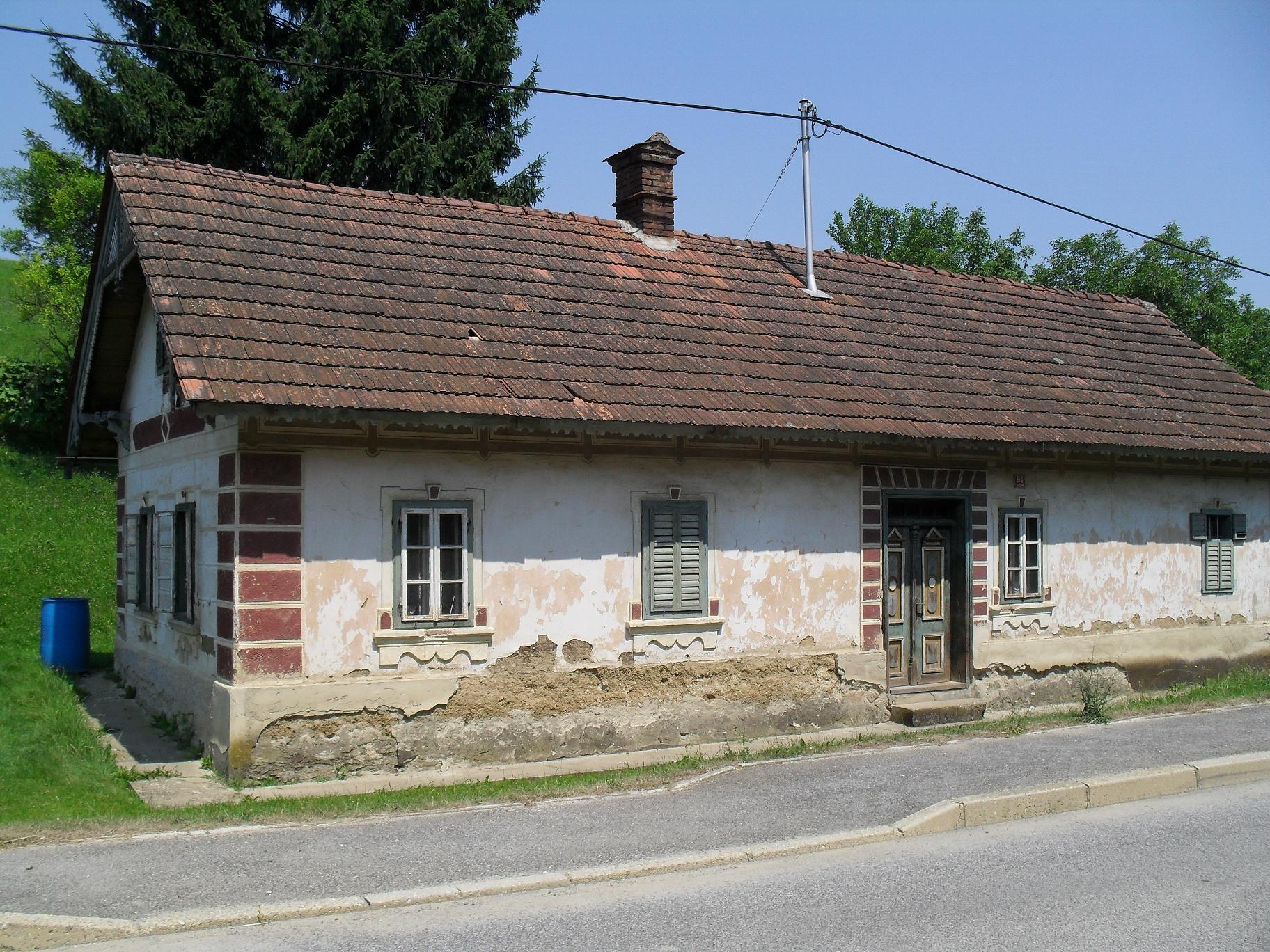 Olda house in Sotina, Rogašovci municipality, Prekmurje